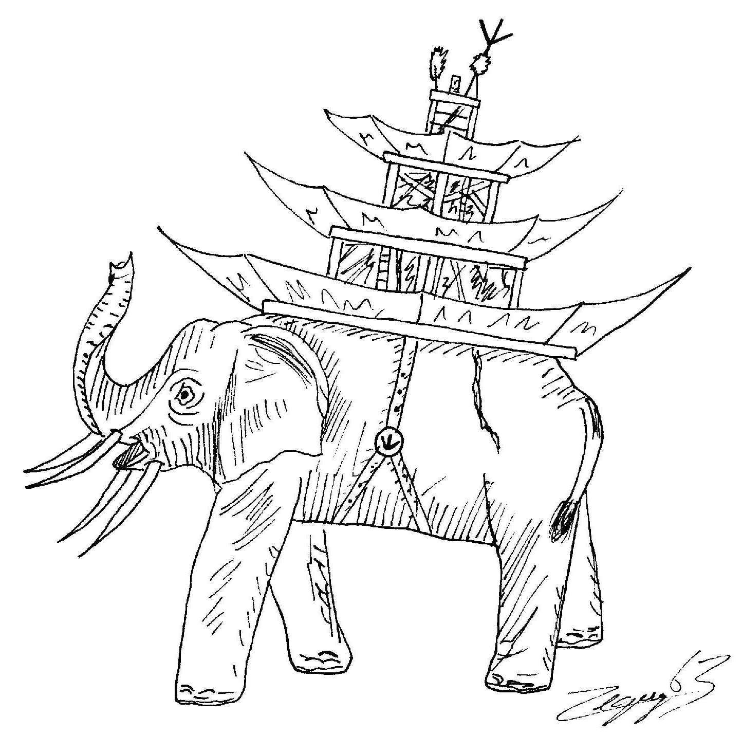 Mûmak.